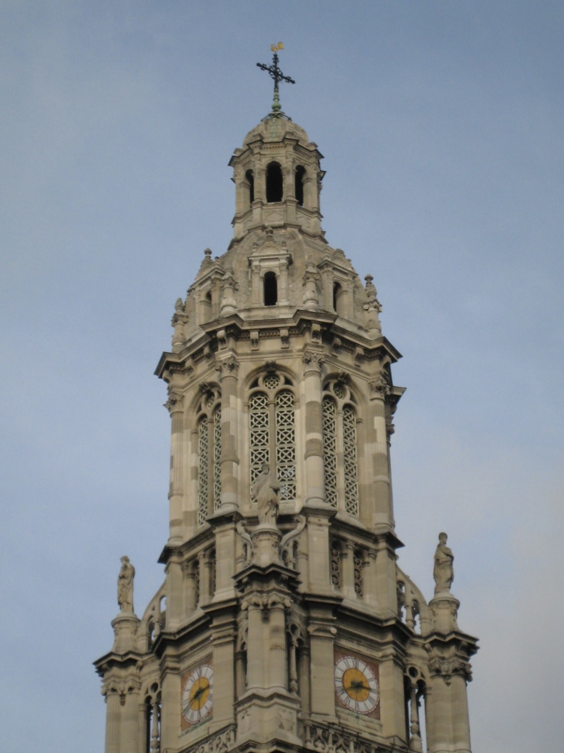 View of the bell's tower of the Trinity church